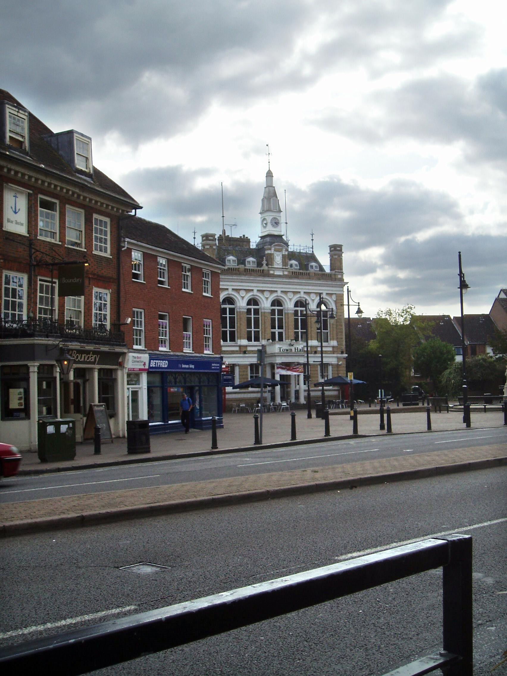 Market Square, Staines, Middlesex (now Surrey), seen from the northeast. In the foreground on the left is the former Blue Anchor pub, 9–11 Market Square. Centre right in the background is the Old Town Hall. Centre left between them is 13–15 Market Square.